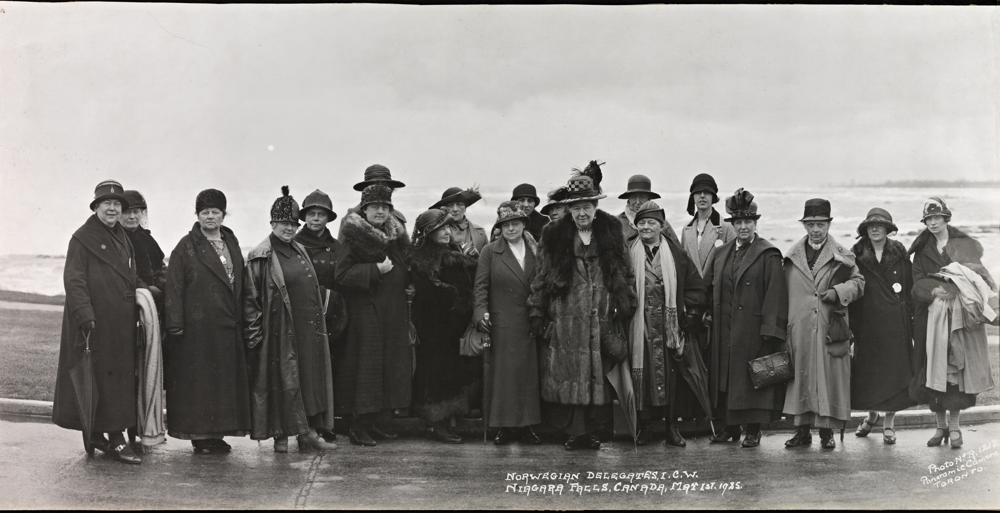 Tittel / Title: Norwegian delegates, I. C. W., Niagara Falls, Canada, May 1st. 1925 Beskrivelse / Description: Norske delegater til International Council of Womens møte i Washington D.C., 4.-14. mai 1925. Dato / Date: 1. mai 1925 Fotograf / Photographer: Panoramic Camera Company (Toronto) Sted / Place: Canada, Ontario, Niagara Falls Eier / Owner Institution: Nasjonalbiblioteket / National Library of Norway Lenke / Link: Bildesignatur / Image Number: blds_05752